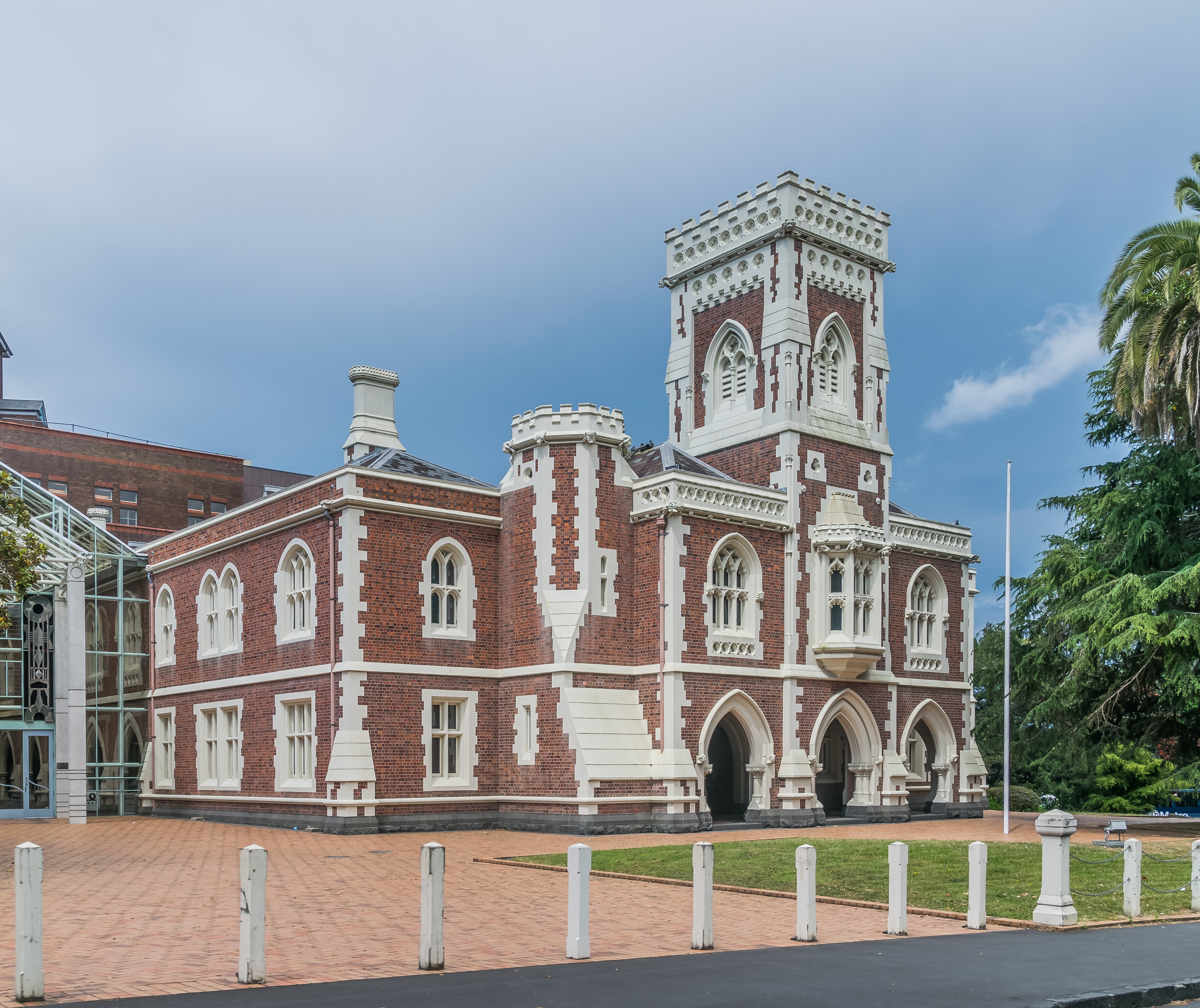 Auckland High Court at 24 Waterloo Quadrant in Auckland, New Zealand